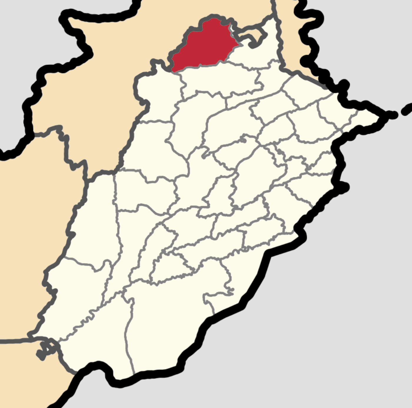 This map highlights the location of Attock District in Pakistani Punjab. Template can be found at this location